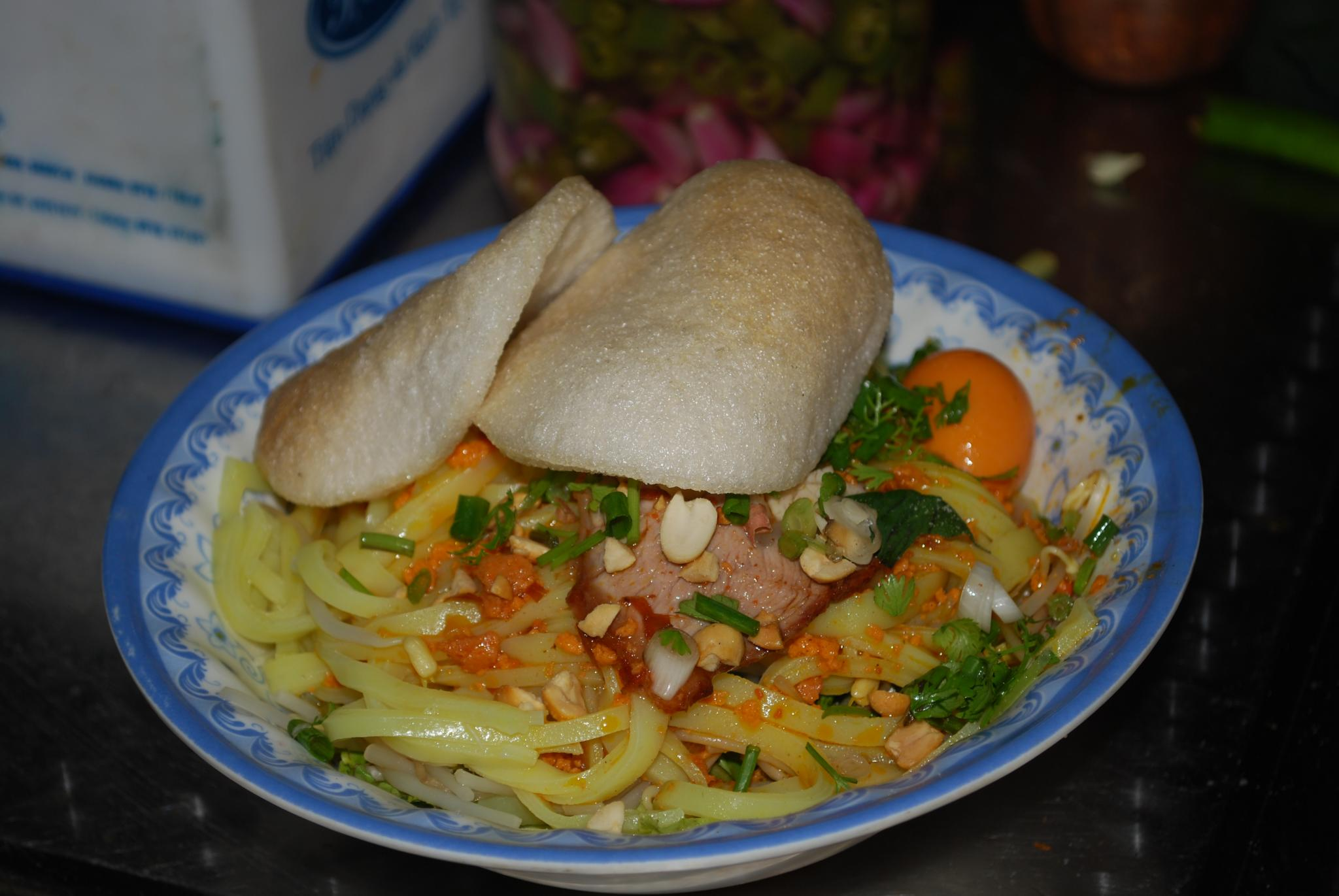 Mi Quang - Quan Hat Mi Quang, Cao Lau VND2000